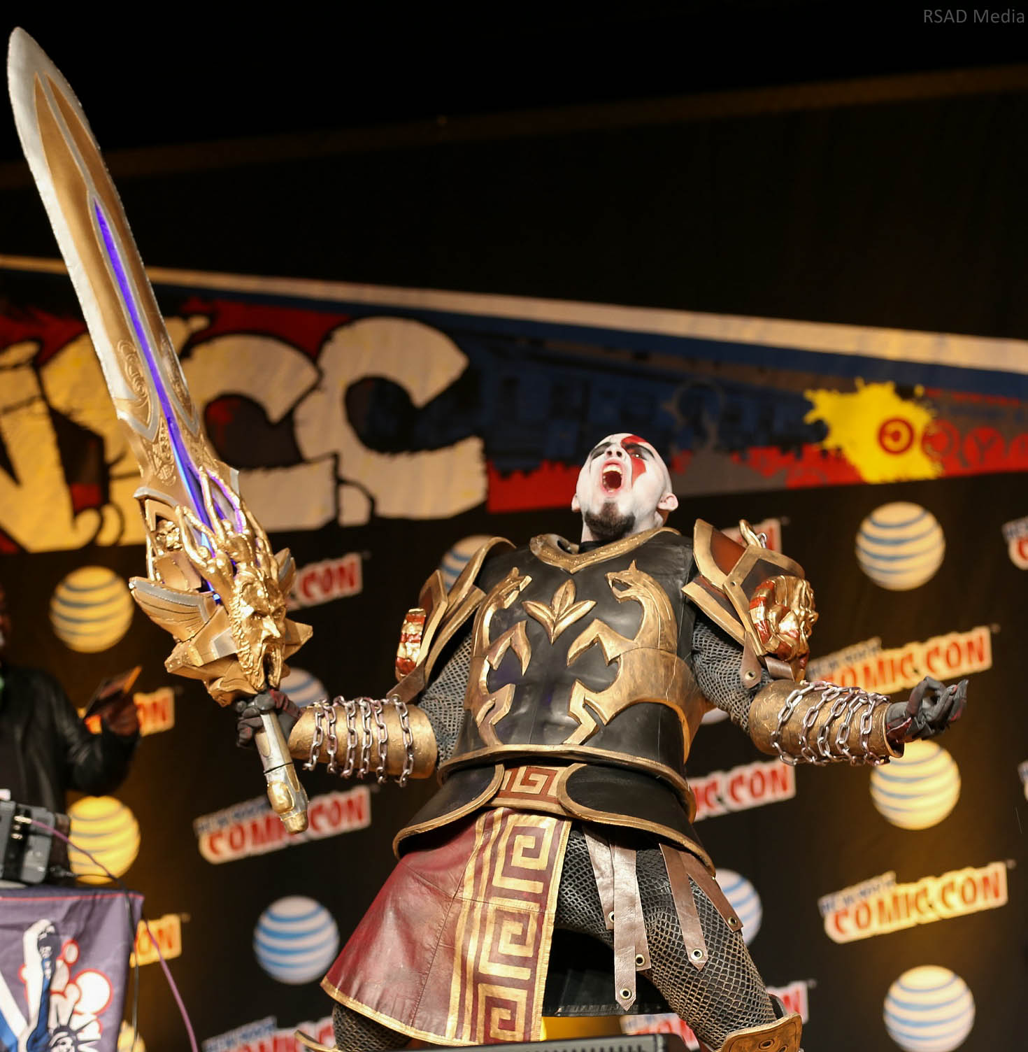 New York Comic Con 2015 - Kratos Cosplay at the 2015 New York Comic Con (NYCC 2015).